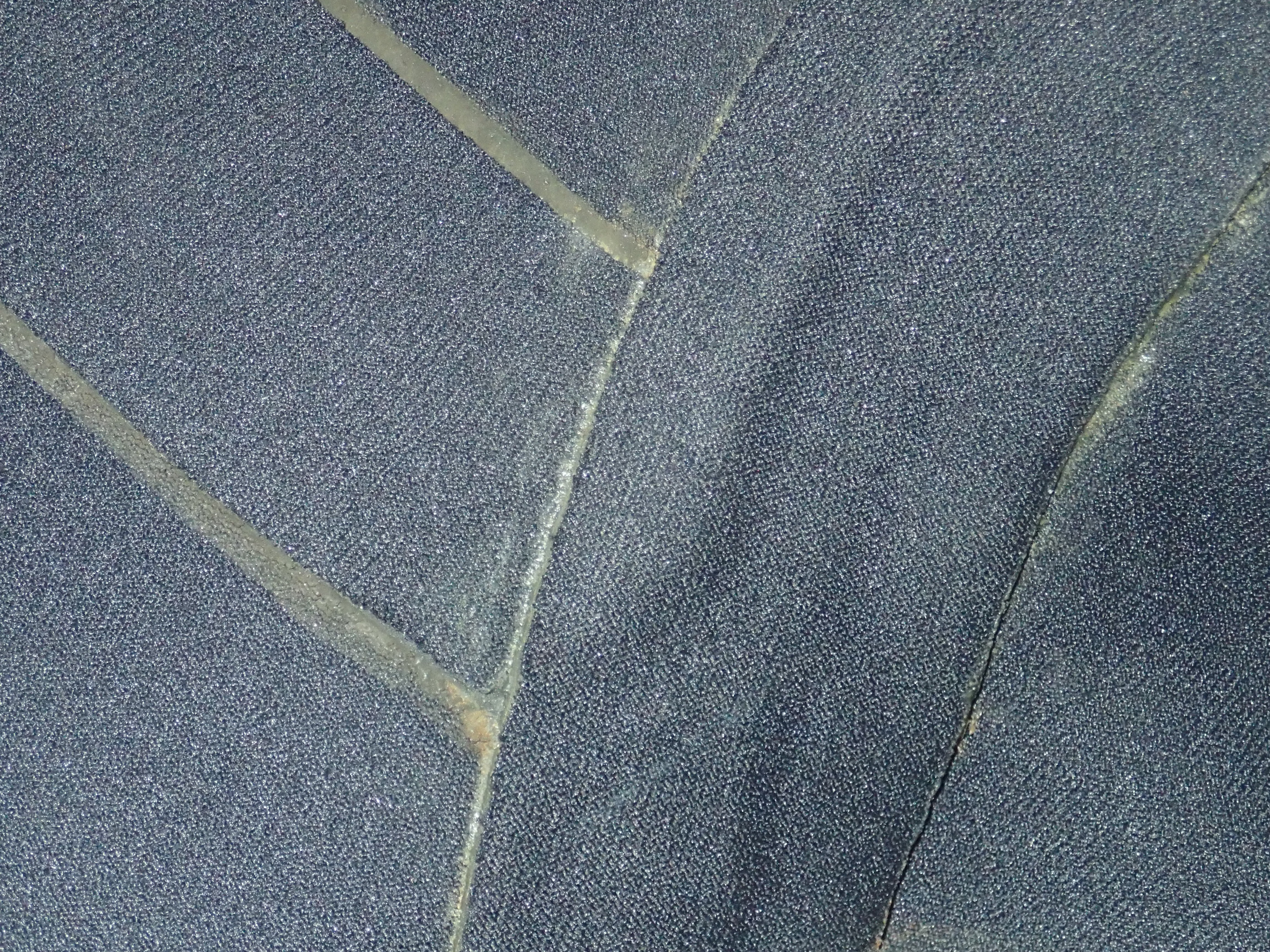 Reef neoprene dry suit seam tape detail